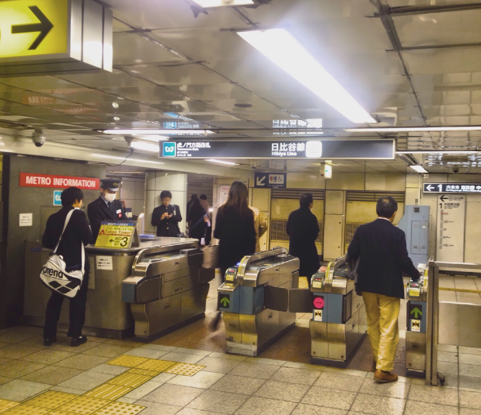 The ticket gates at Kamiyacho Station in Tokyo, Japan